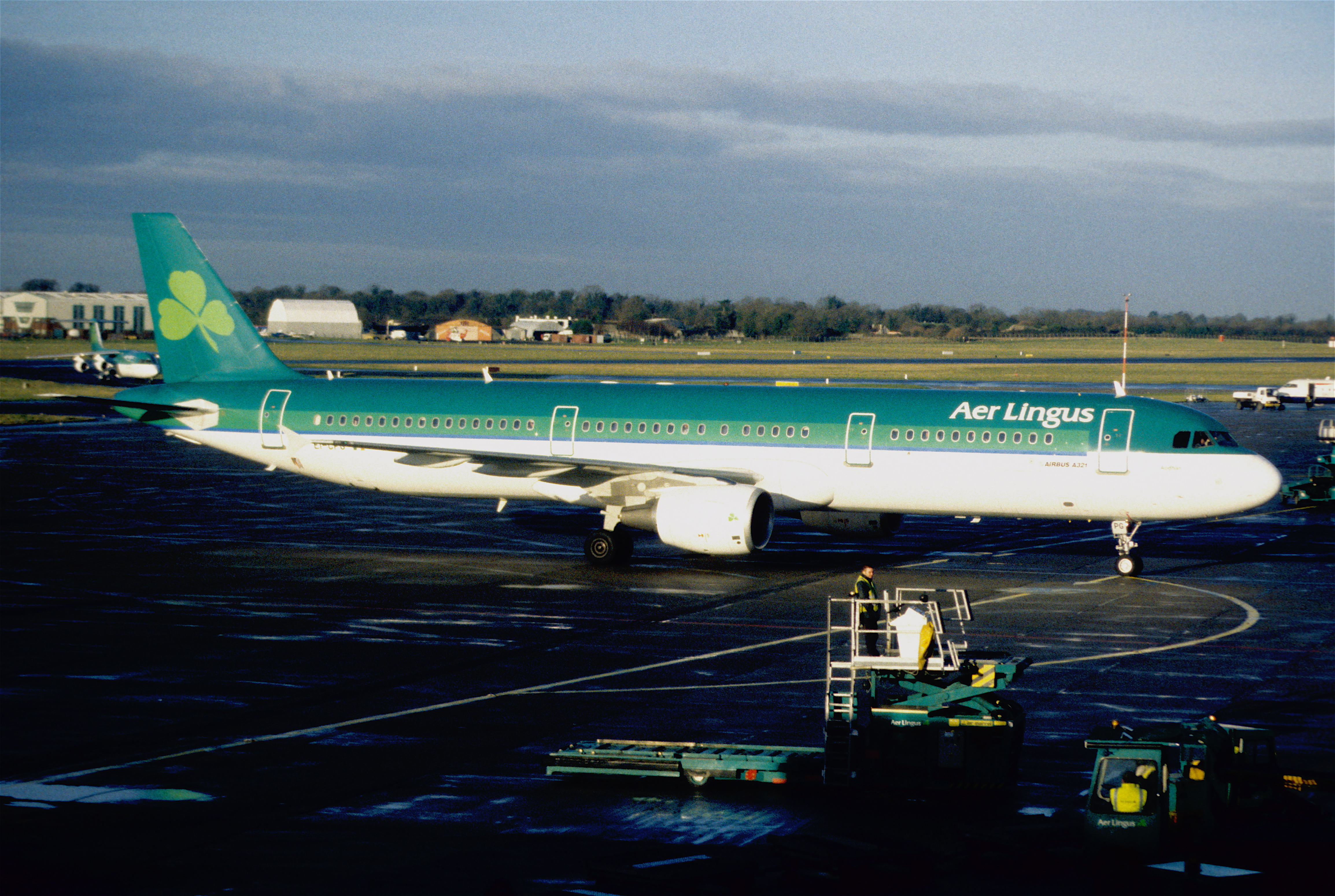 120af - Aer Lingus Airbus A321-211; EI-CPG@DUB;08.01.2001